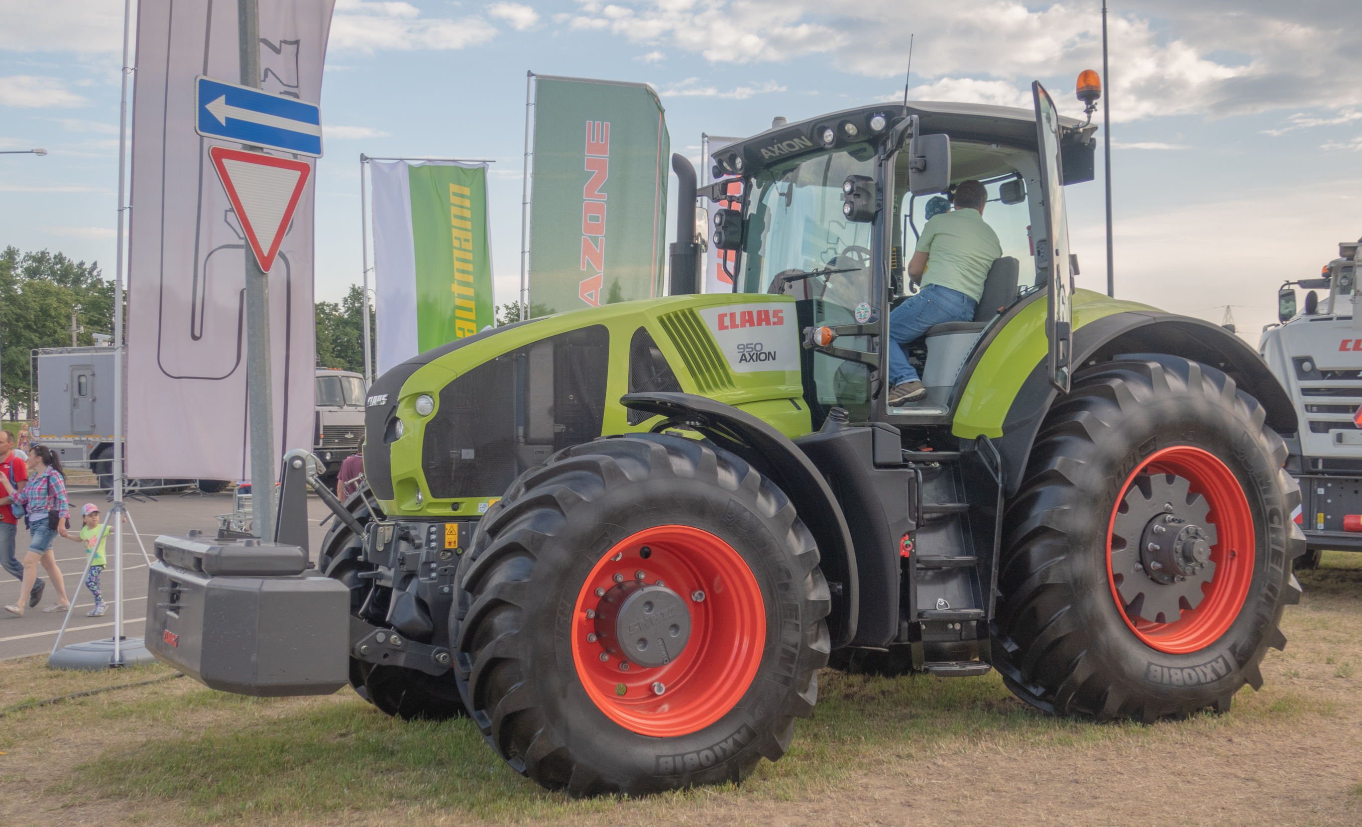 Claas vehicle. Photo taken at Belagro-2019 exhibition (Minsk district, Belarus)